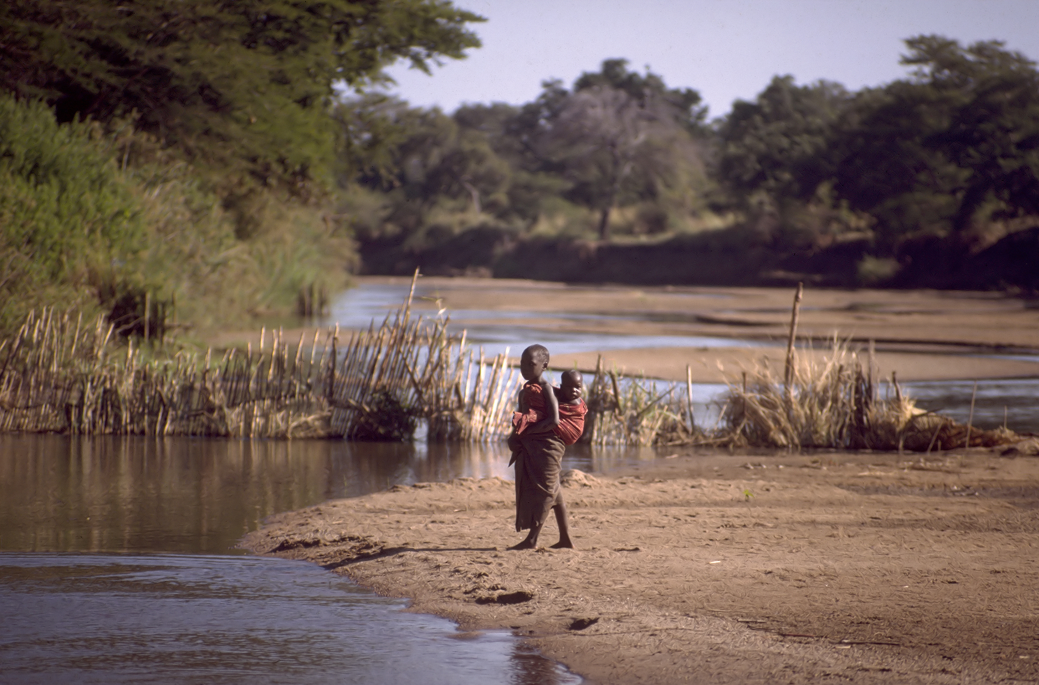 Children crossing a river close to Kakumbi/Chilelemba (Mfuwe area), Zambia Kodak photo CD from slide